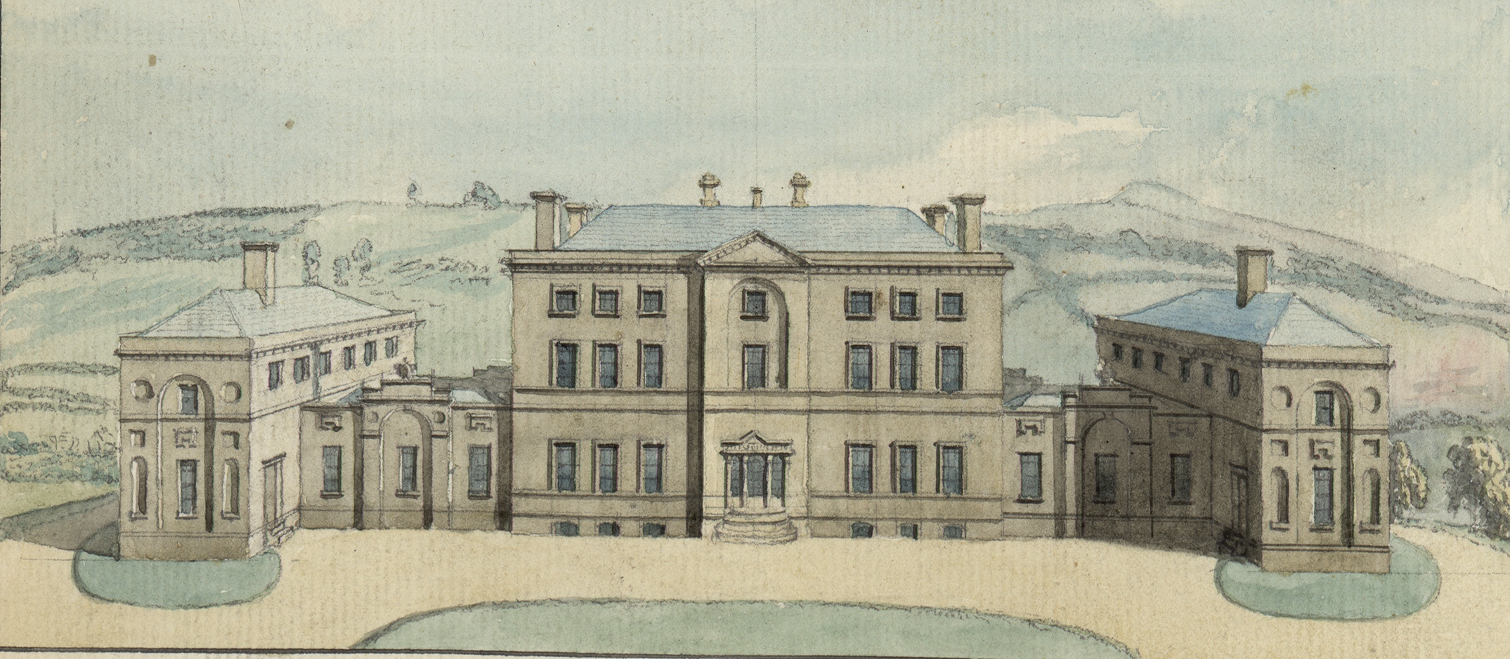 An image from a set of 8 extra-illustrated volumes of A tour in Wales by Thomas Pennant (1726-1798) that chronicle the three journeys he made through Wales between 1773 and 1776. These volumes are unique because they were compiled for Pennant's own library at Downing. This edition was produced in 1781. The volumes include a number of original drawings by Moses Griffiths, Ingleby and other well known artists of the period. Thomas Pennant (1726-1798)